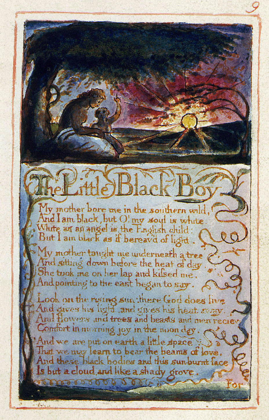 Songs of Innocence and of Experience, copy Z, 1826 (Library of Congress): electronic edition object 9 (Bentley 9, Erdman 9, Keynes 9)